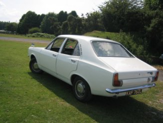 From with full permissions. 1972 Hillman Avenger saloon 1500cc, photographed in 2004 on Dartmoor, Devon. *Please see Image talk:Vr2020.jpg for email communication. --Colin99 18:46, 20 January 2006 (UTC)